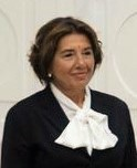 Turkish Prime Minister Recep Tayyip Erdogan swears as 12th president at Grand National Assembly of Turkey, Ankara.